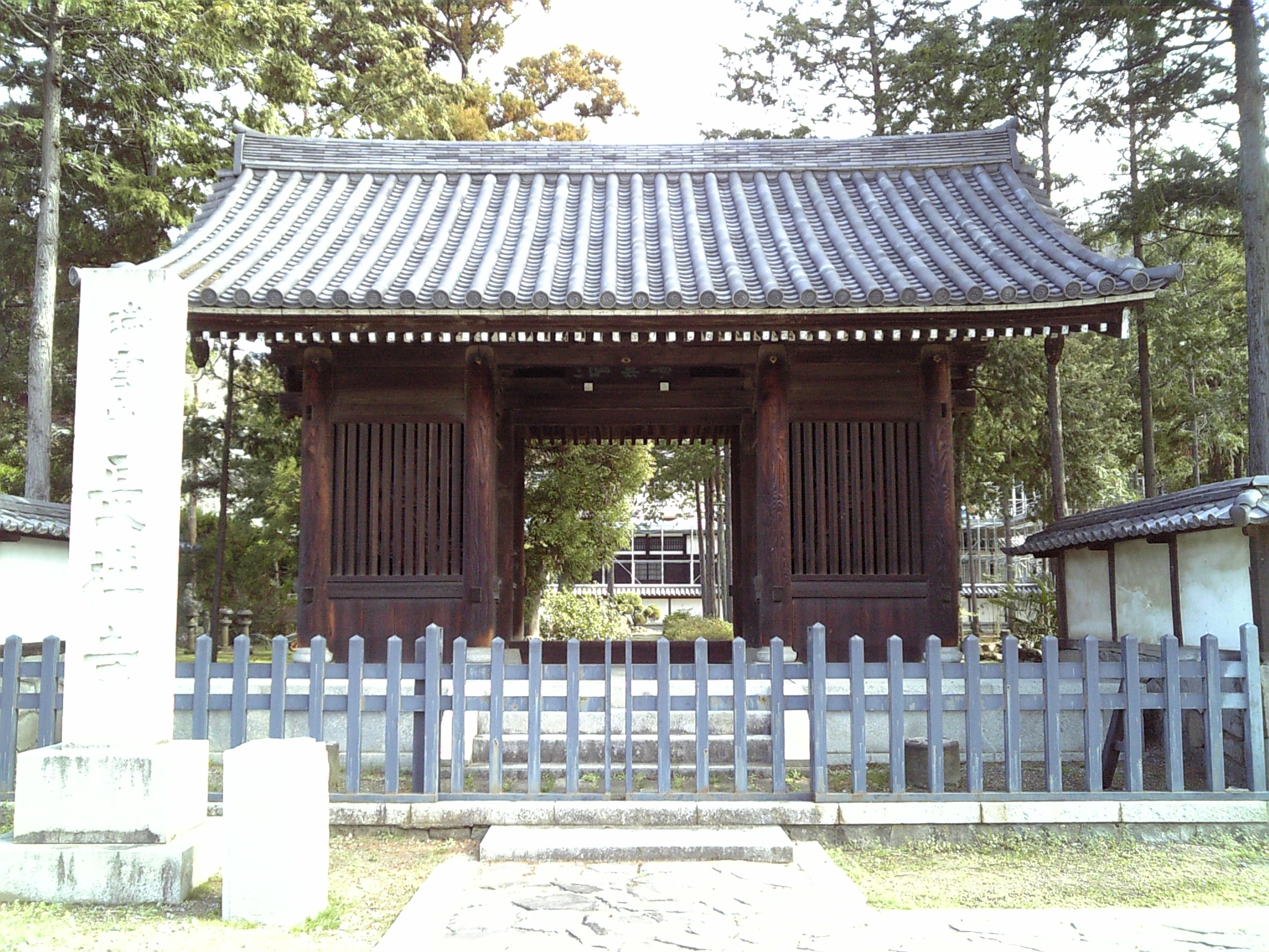 Chozen-ji temple in kofu-city